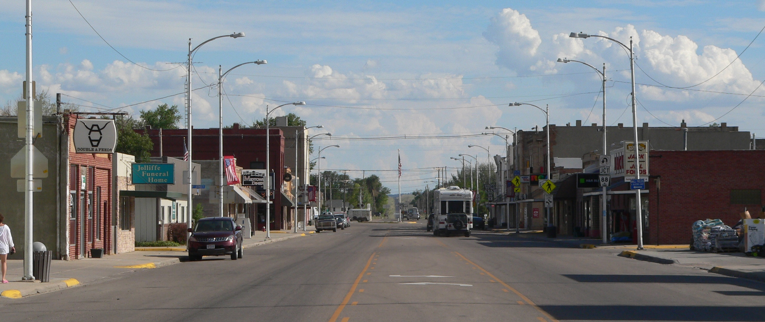 Downtown Bridgeport, Nebraska: Main Street, looking south from about 8th Street.